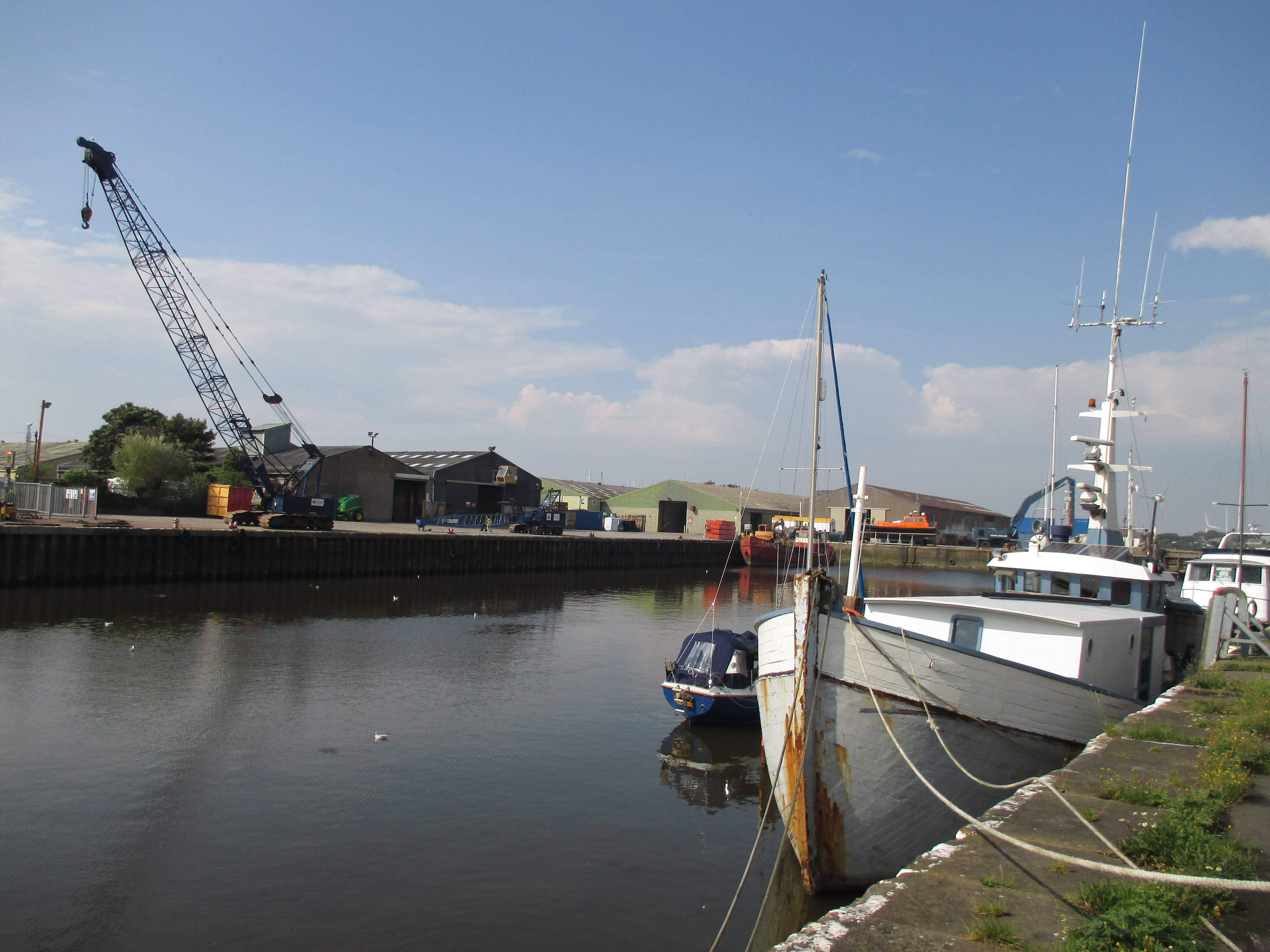 The dock at Glasson Dock, Lancashire, seen from the east.